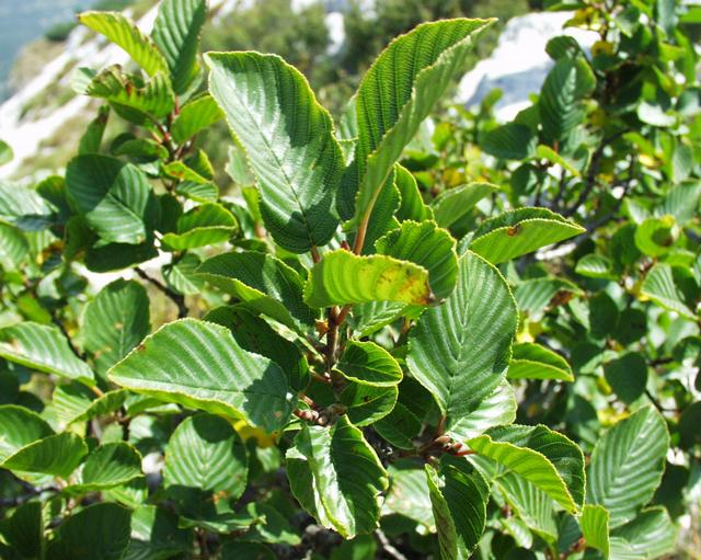 (en) Rhamnus alpina , a photography originating of the internet site The accord of the autor, H. Brisse, is here. (fr) Rhamnus alpina , une photographie issue du site internet L'accord de l'auteur, H. Brisse, se situe ici.